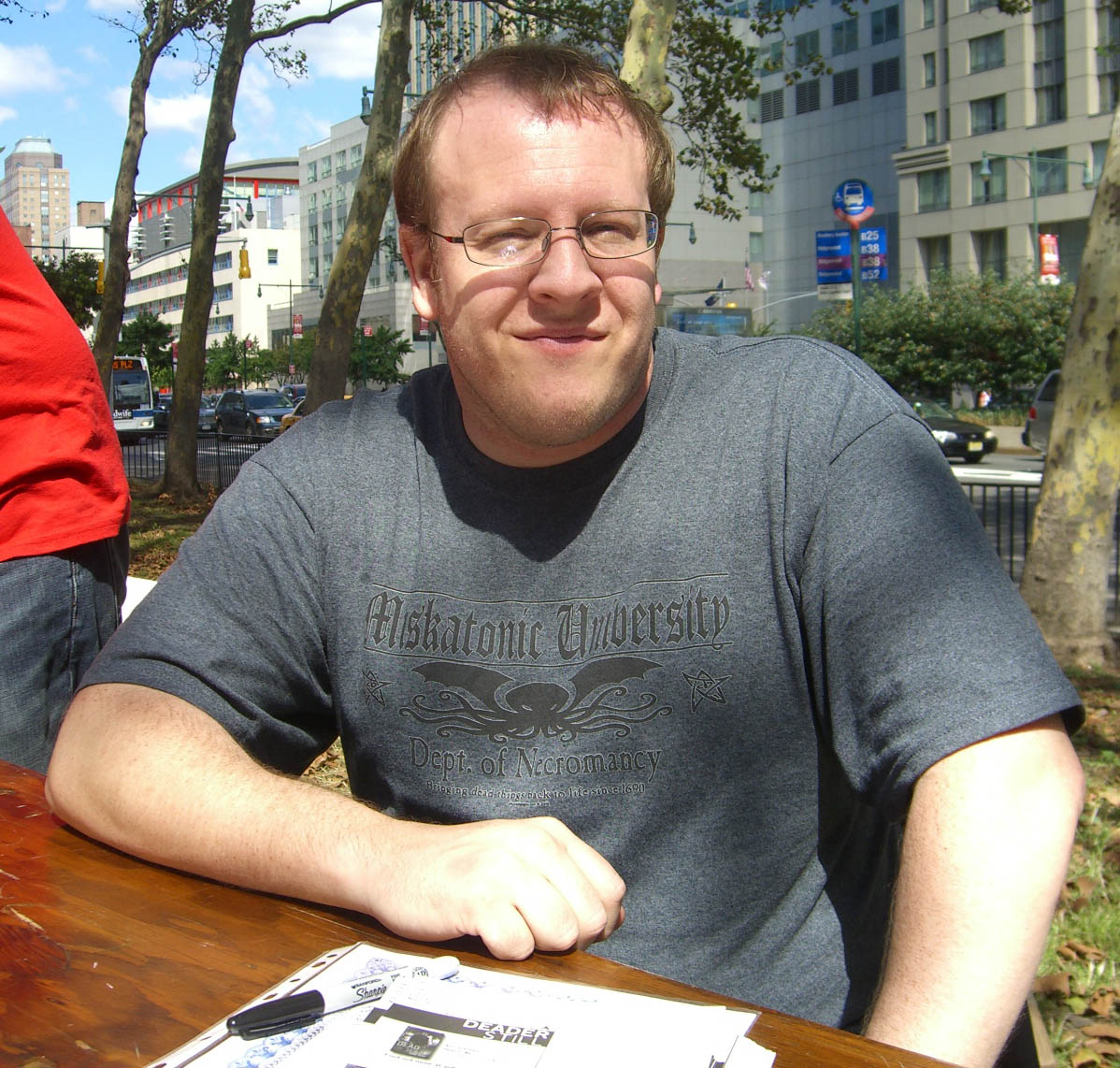 Fantasy author Anton Strout at the October 13, 2009 Brooklyn Book Festival. This photo was created by Luigi Novi. It is not in the public domain, and use of this file outside of the licensing terms is a copyright violation.